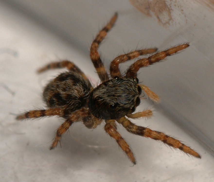 Juvenile salticid, most likely Pseudeuophrys lanigera, from Cologne, Germany. Was found wandering about on a laser printer inside an office building.